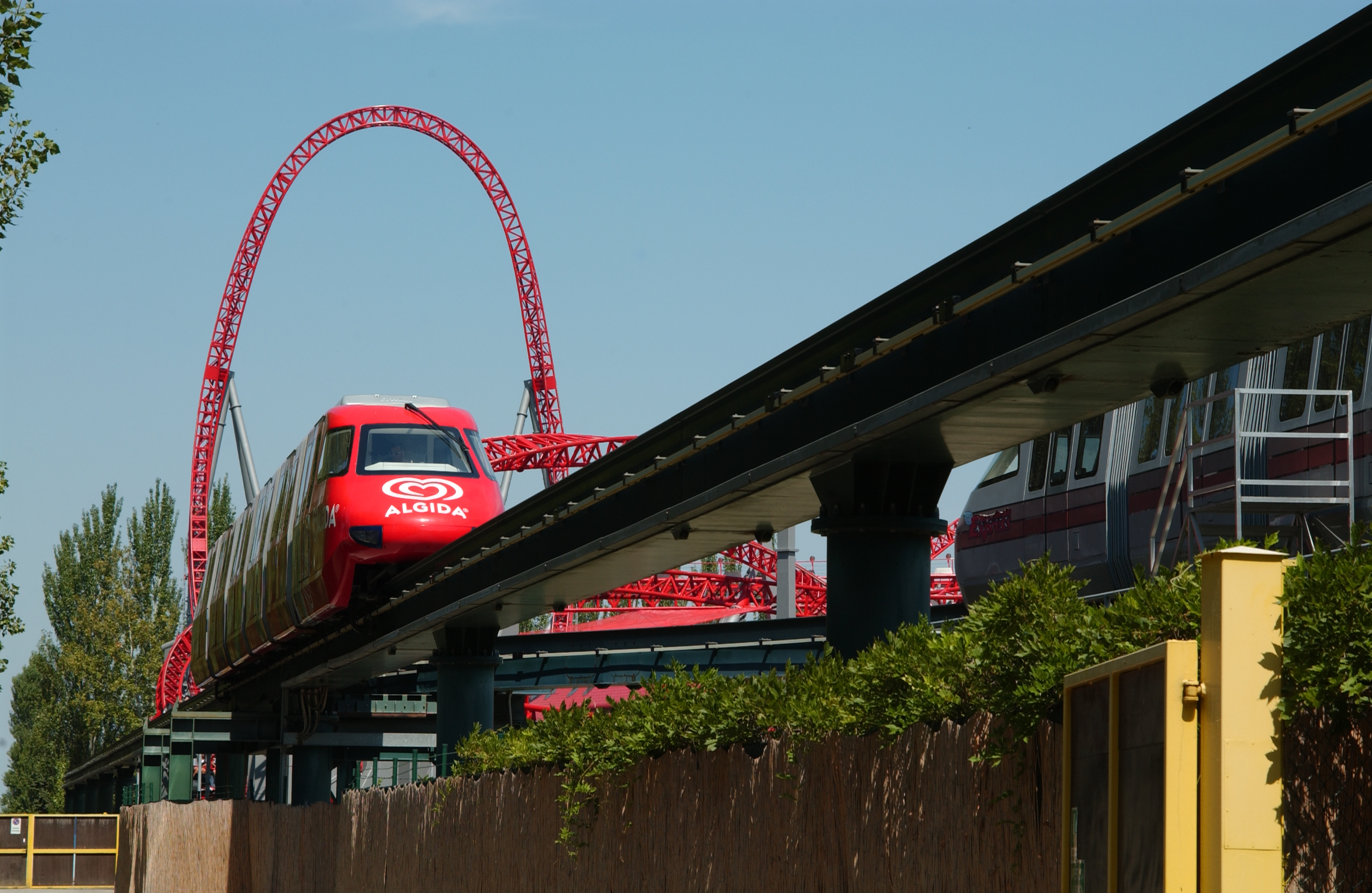 Mirabilandia Express monorail